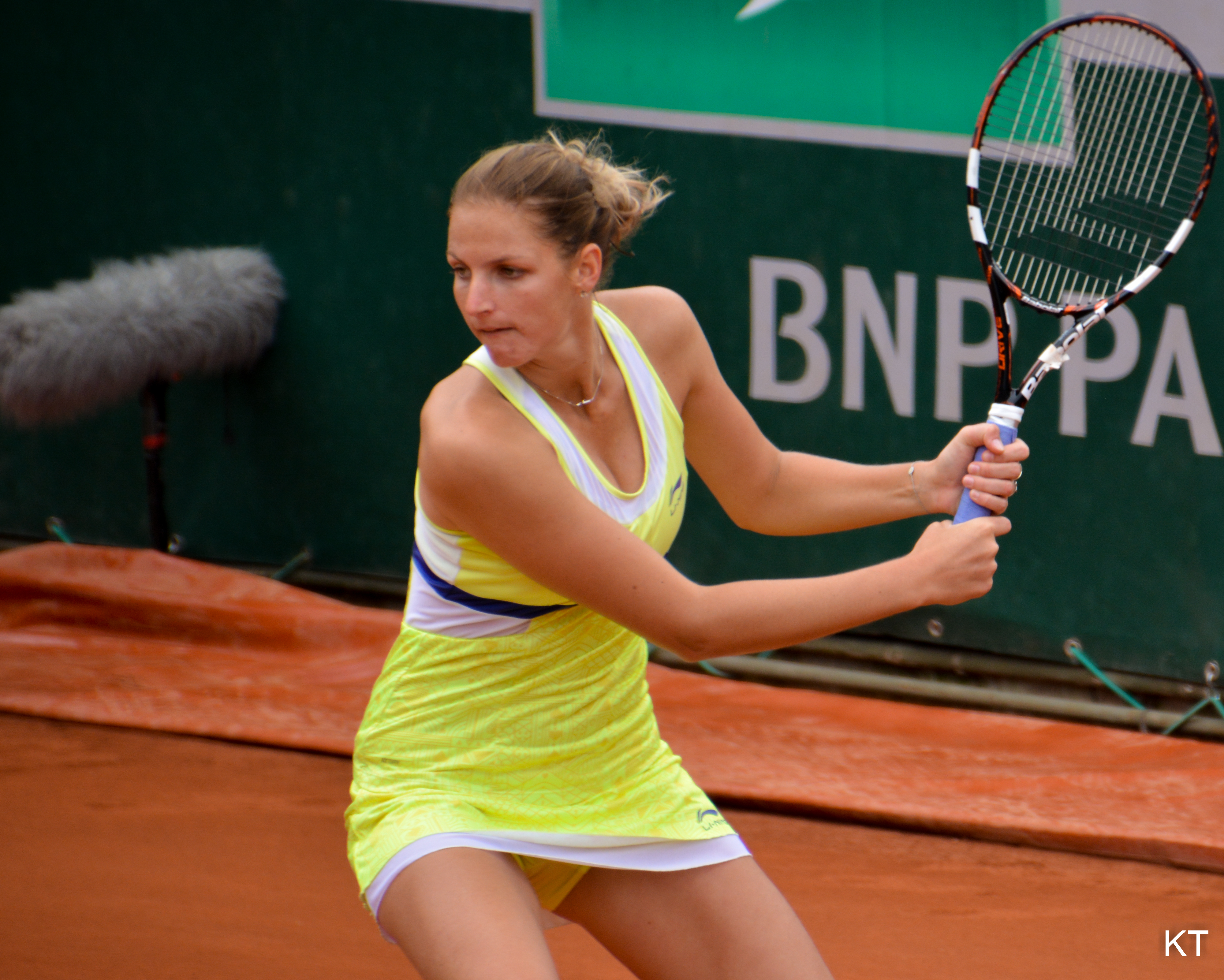 Day 5 of Roland Garros 2015.